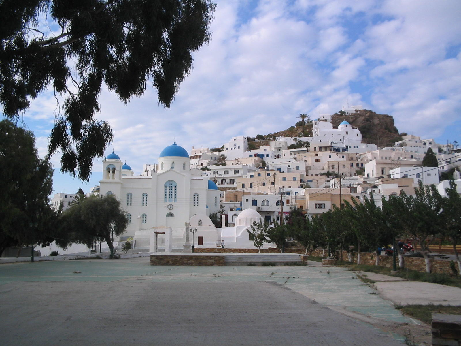 Ios Village, Cyclades, Greece